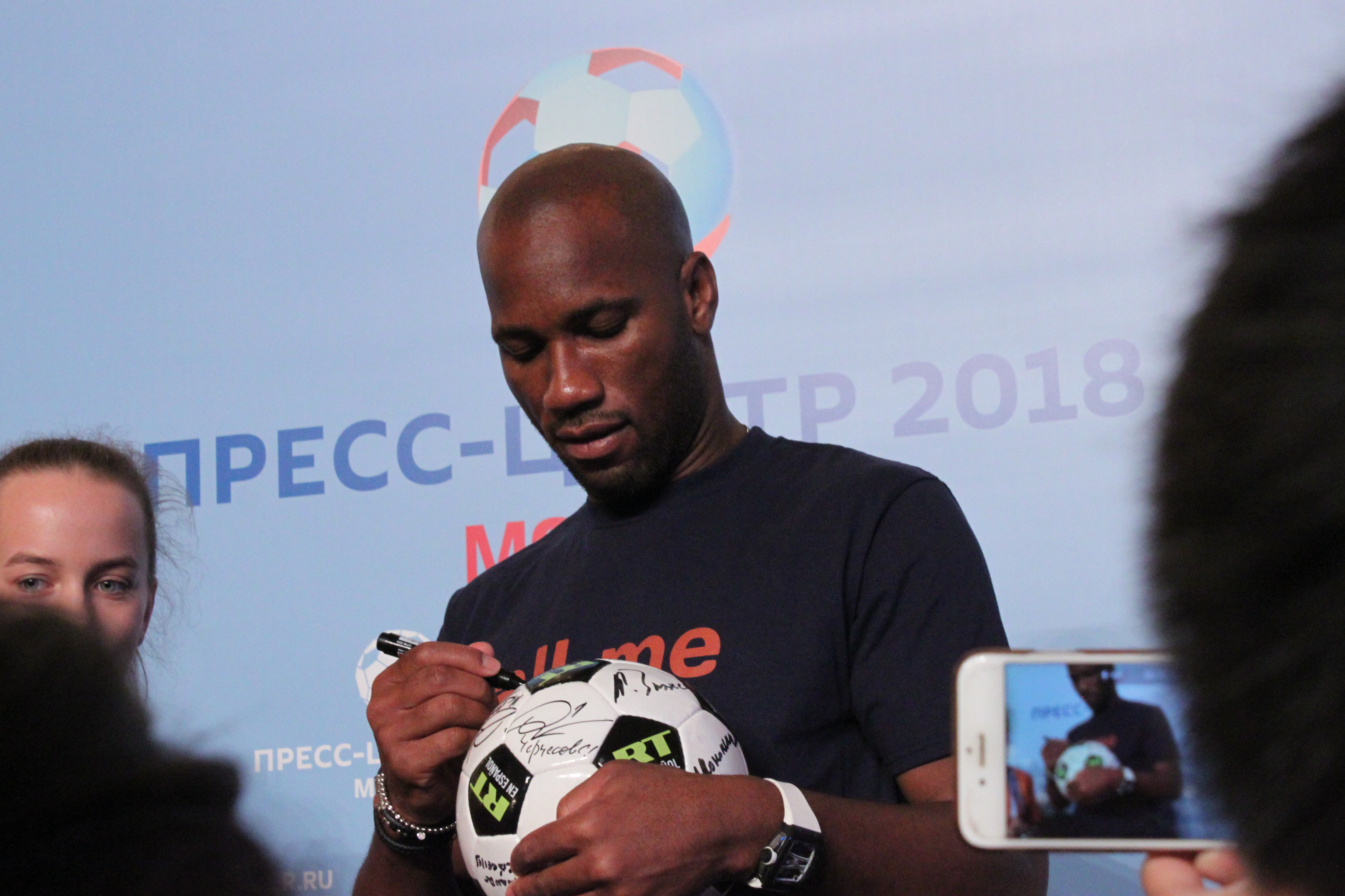 Moscow press-center on July 13, 2018. Press-conference Didier Drogba.